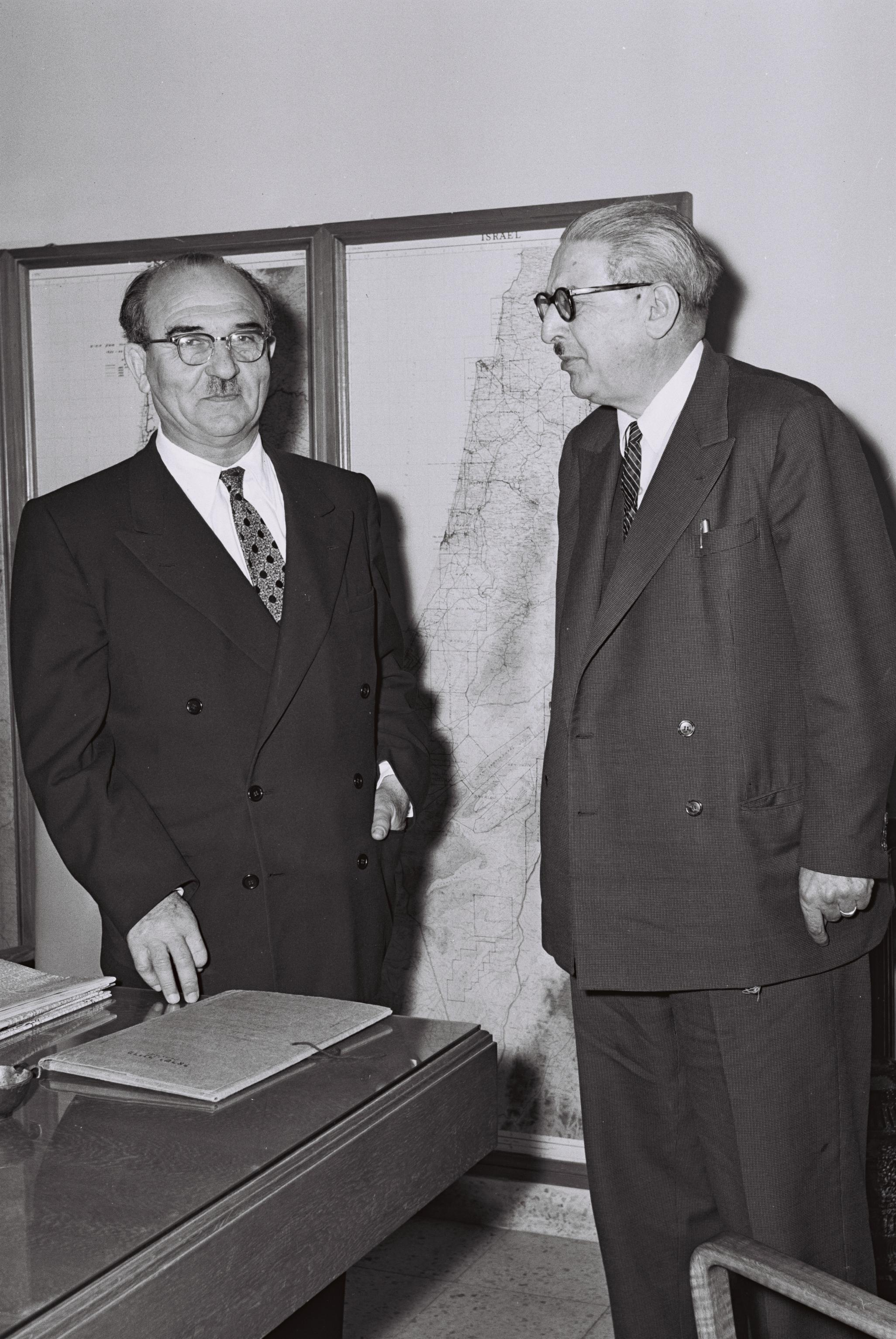 Former French defence minister Jules Moch visiting Levi Eshkol in Israel